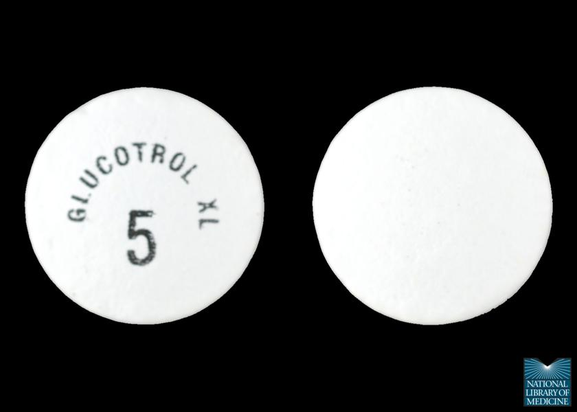 Drug Name: 24 HR Glucotrol XL 5 MG Extended Release Tablet Ingredient(s): Glipizide Drug Label Imprint: GLUCOTROL;XL;5 Color(s): White Shape: Round Size (mm): 8.00 Score: 1 Inactive Ingredient(s): ShowHide polyethylene glycol / hypromelloses / magnesium st... polyethylene glycol / hypromelloses / magnesium stearate / sodium chloride / ferric oxide red / cellulose acetate Drug Label Author: Roerig DEA Schedule: Non-scheduled